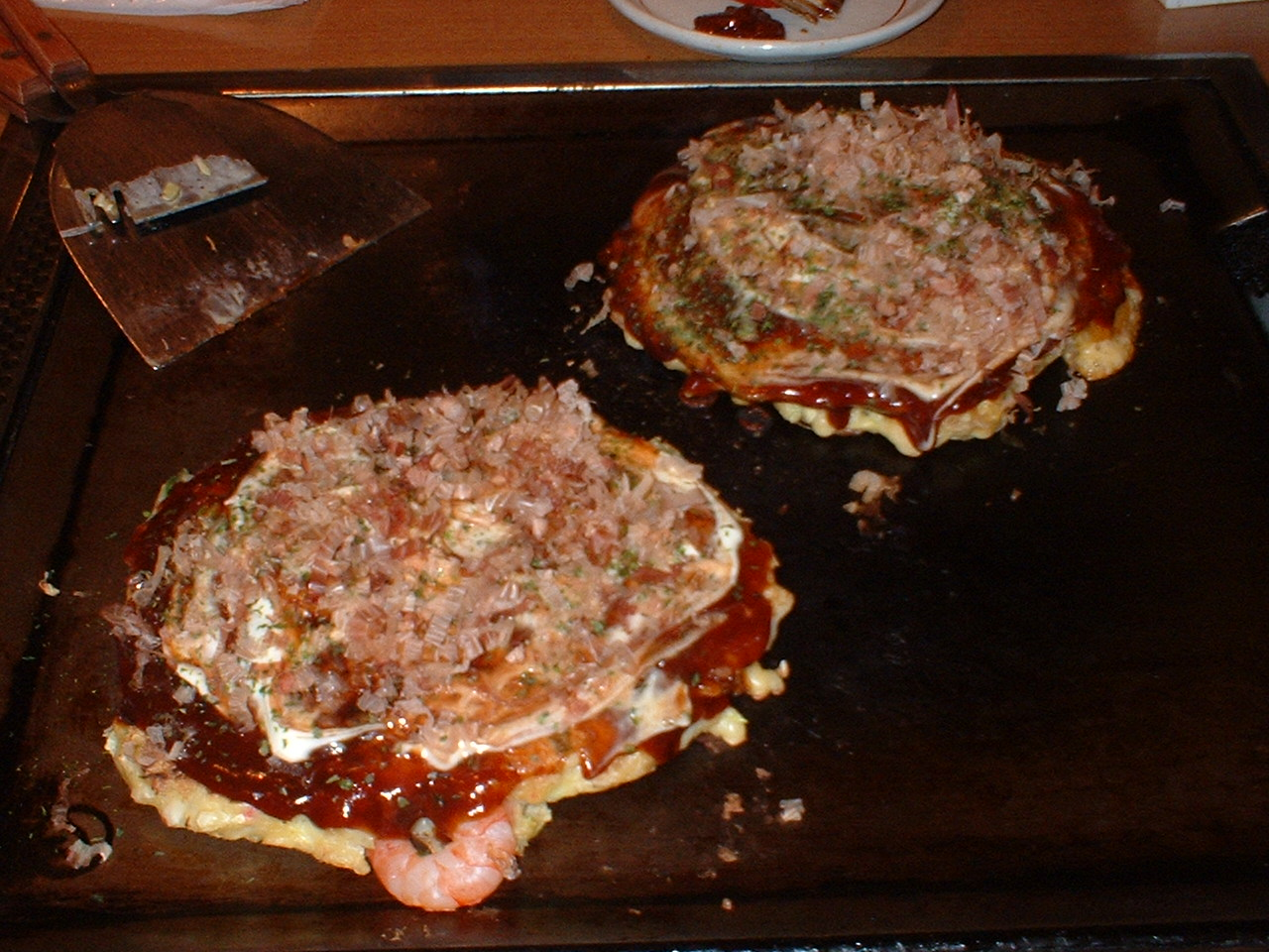 Picture taken in an Okonomiyaki restaurant inside the Tenpōzan Marketplace (Osaka)